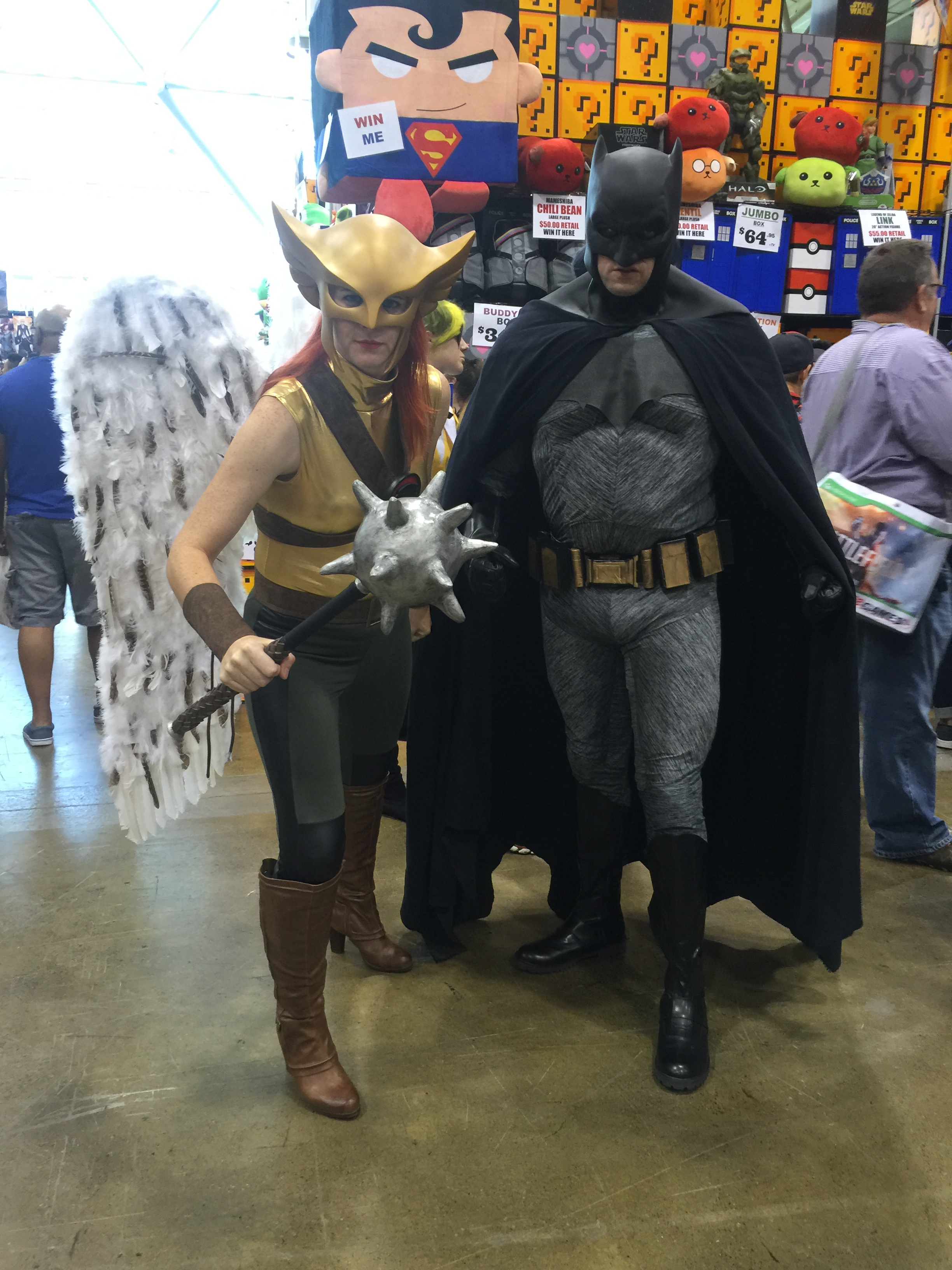 An unidentified cosplayer as Hawkgirl and "Ottawa Knight" cosplaying as Batman at 2016 Fan Expo Canada.